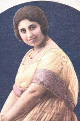 Spanish Actress María Banquer